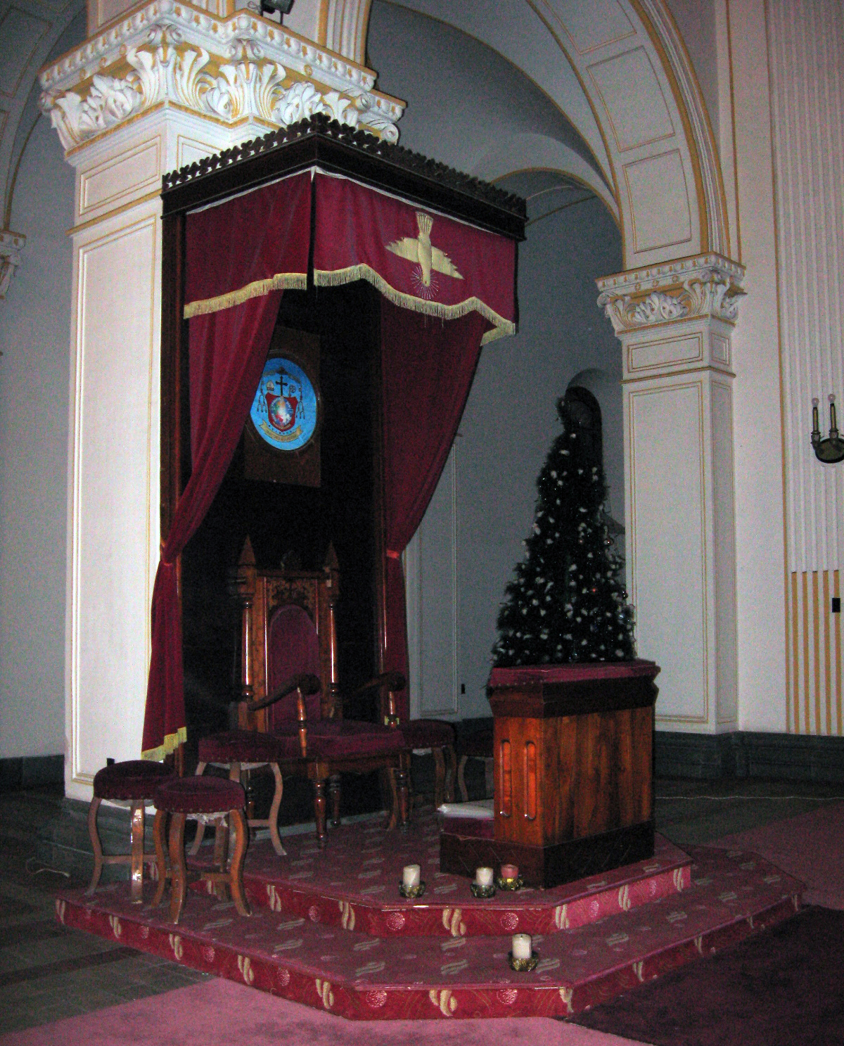 Cathedra of the Bishop of Qingdao, at St. Michael's Cathedral, Qingdao, China.